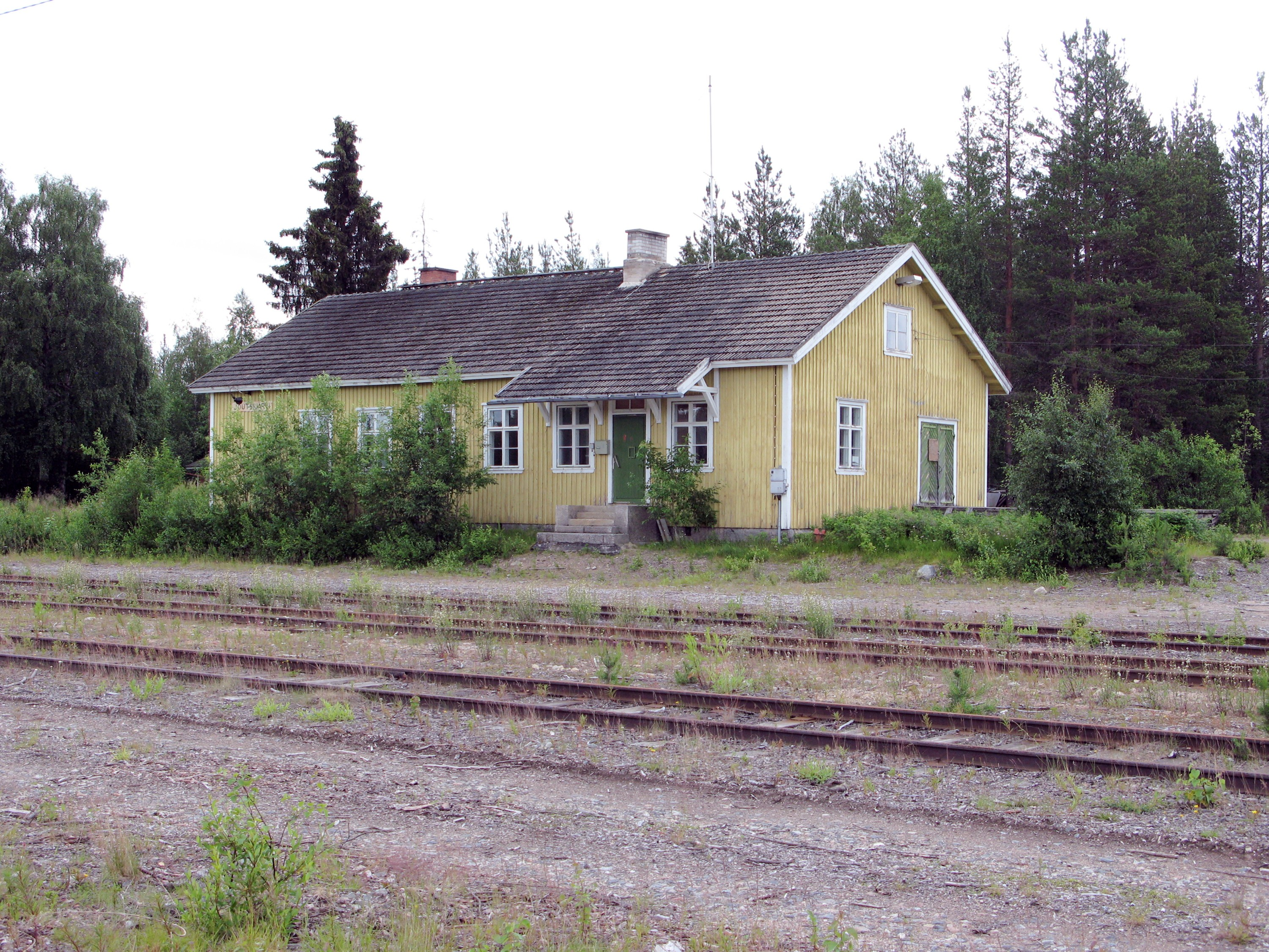 Joutsijärvi railwaystation in Kemijärvi city, Finland.